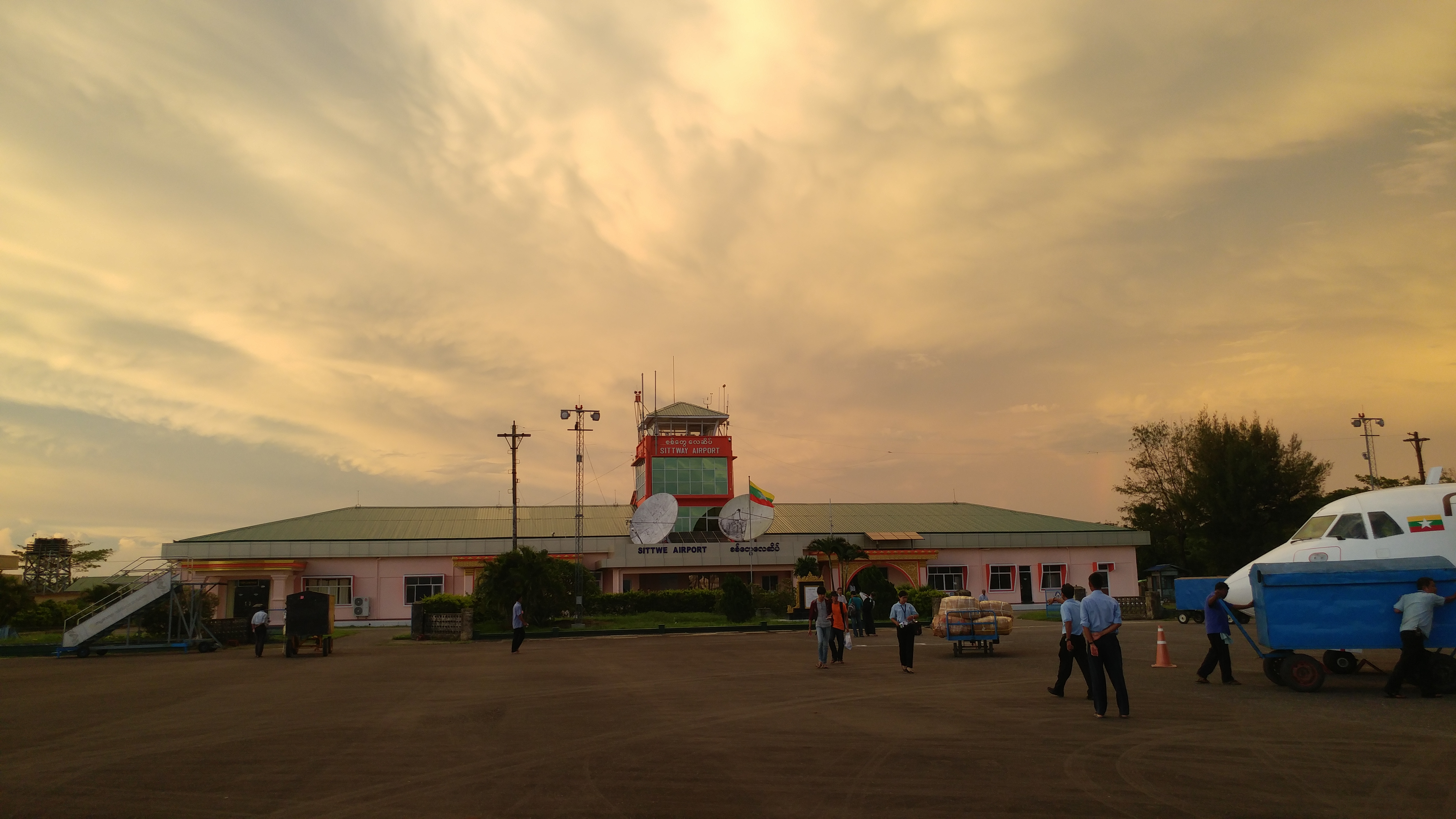 Sittwe Airport Terminal view in 2017 September 30